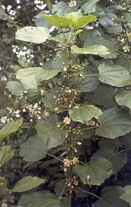 This species, Hampea trilobata Standley, is a common small tree, endemic to the Yucatan peninsula in Mexico and Belize. It is freqently found in secondary vegetation and on the edges of more pristine forests. The species is diocecious with the male flower shown here. Because male flowers lack the characteristic monadelphous stamens (fused stamens around style) male specimens are often confused with members of the Bombaceae, in which Standley first placed the genus. The flowers of this species are similar in color and form (size varies) to other species of Hampea